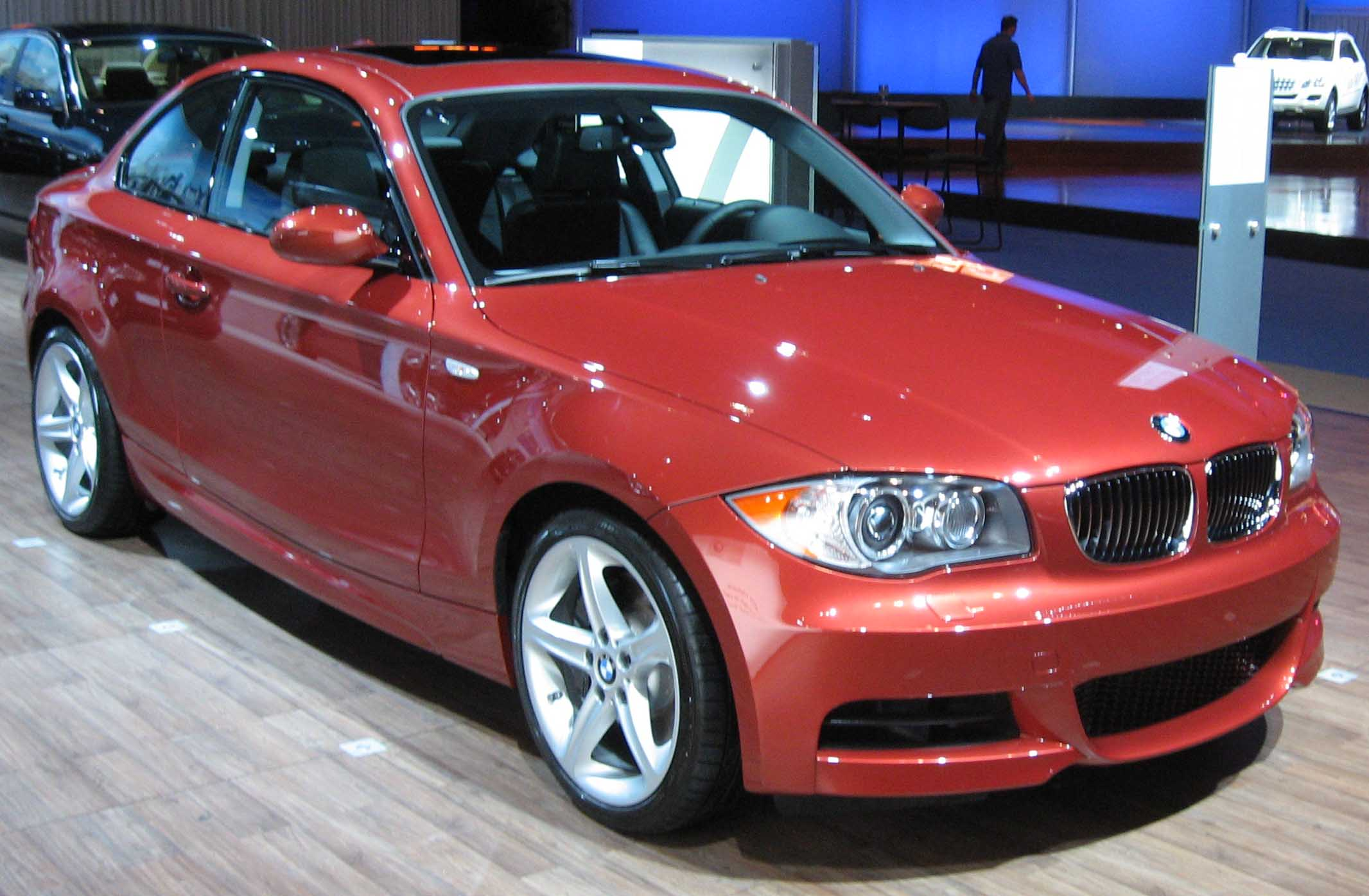 BMW 1-Series photographed at the 2008 New York Auto Show.